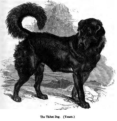 The Thibet Dog